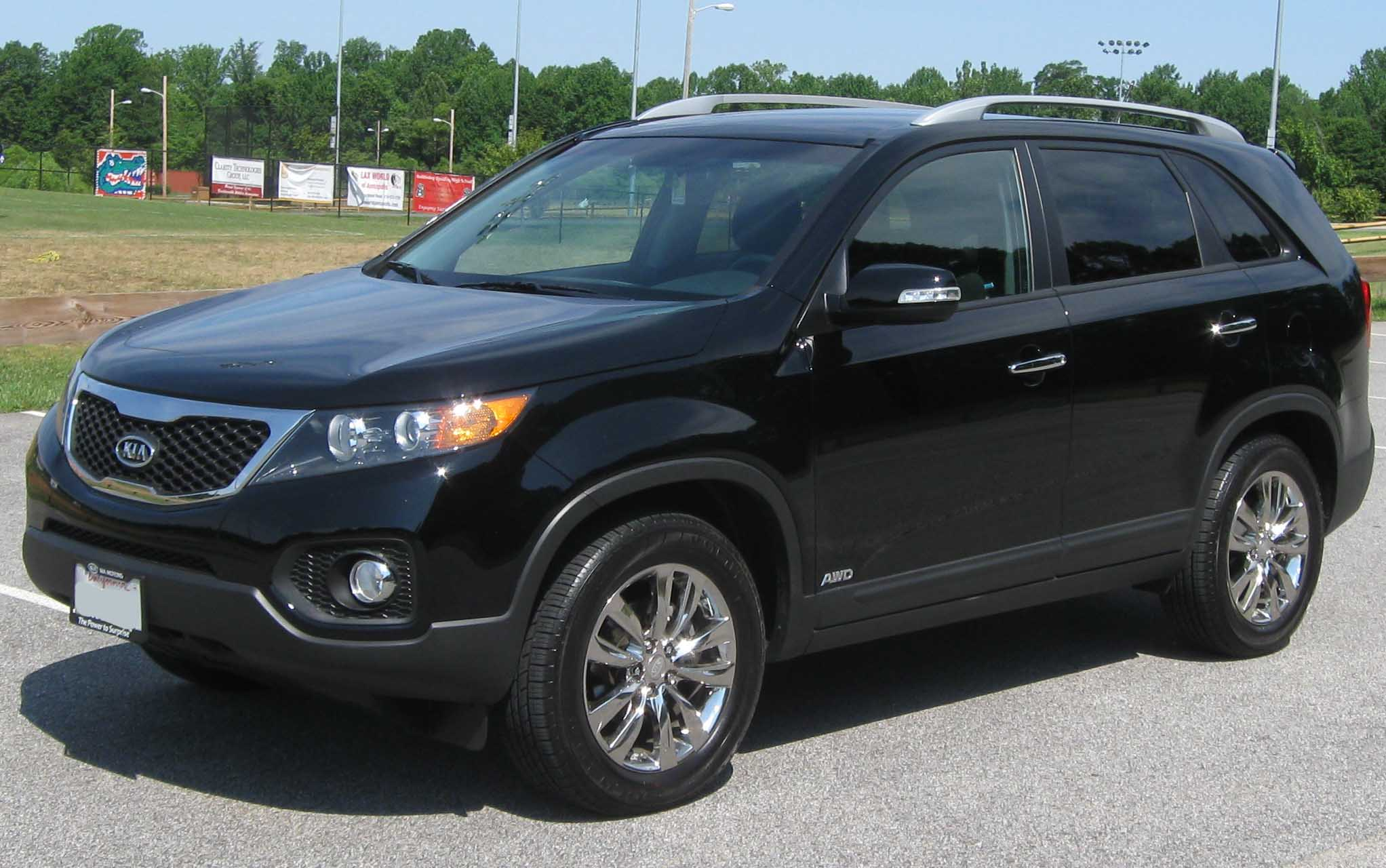 2011 Kia Sorento EX photographed in Davidsonville, Maryland, USA.